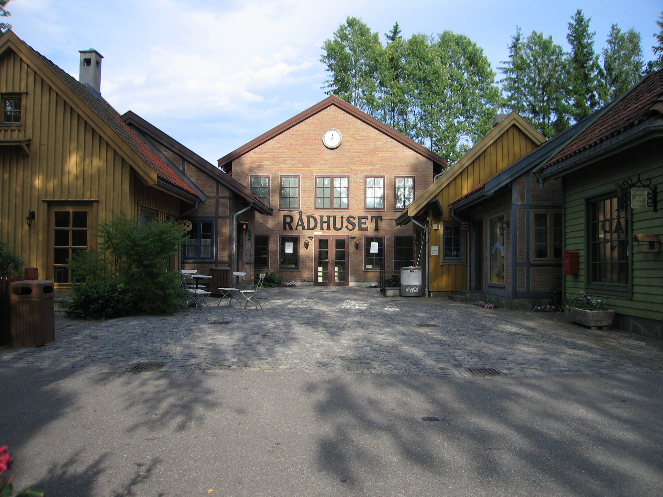 Photo of Skomakergata, as it has been built up in Kristiansand Zoo.